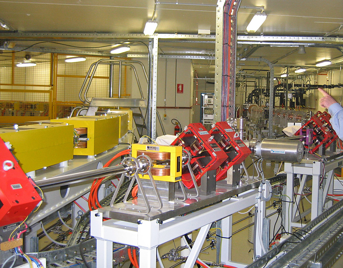 Looking across the linac to the booster ring at the Australian Synchrotron, Clayton, Victoria. The linac is in the centre of the frame, stretching off to the right of picture, and extending down to the far wall; a section of the booster ring can be seen at left surrounded by the large yellow bending magnets.